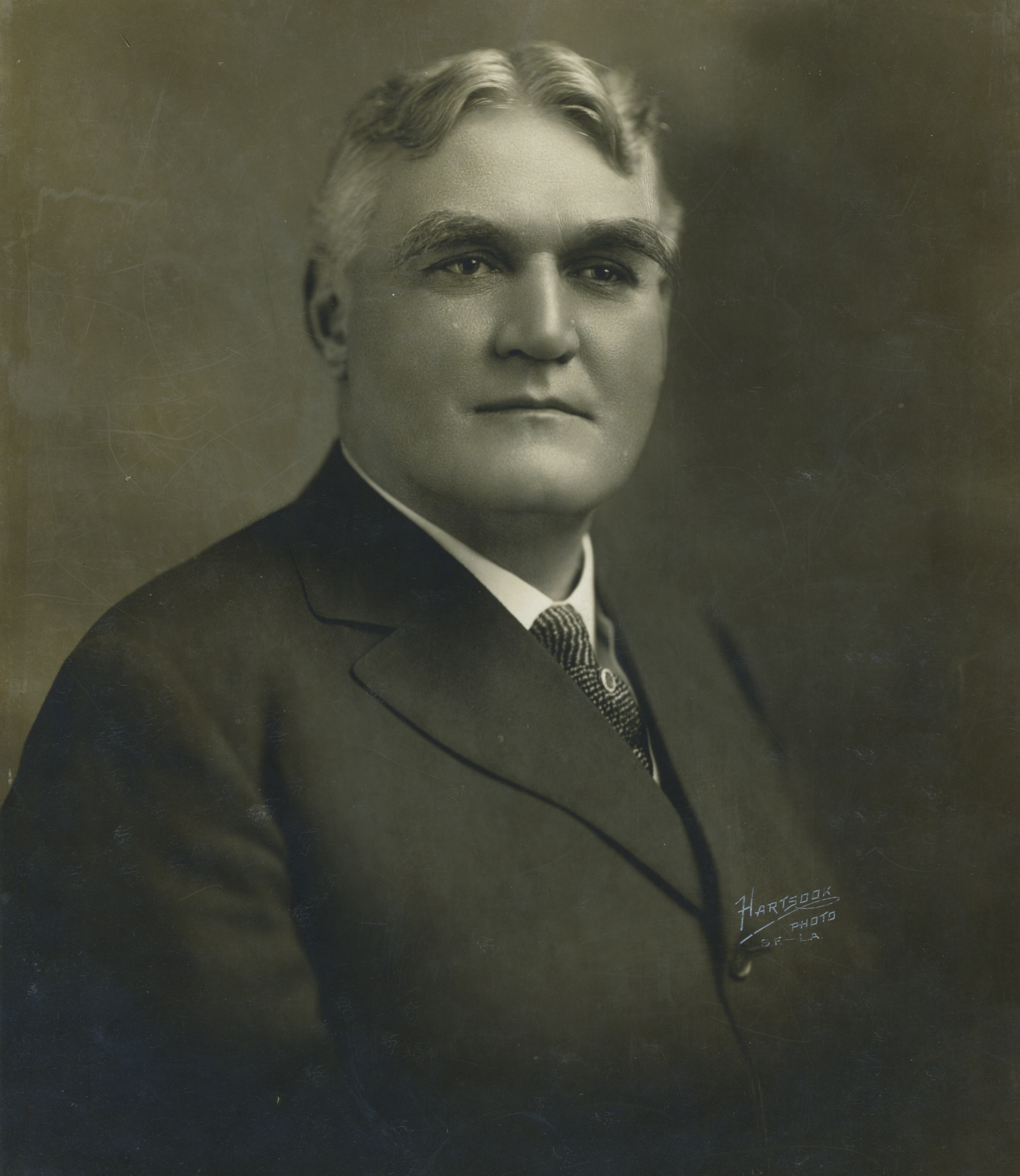 Founder of Juniata College